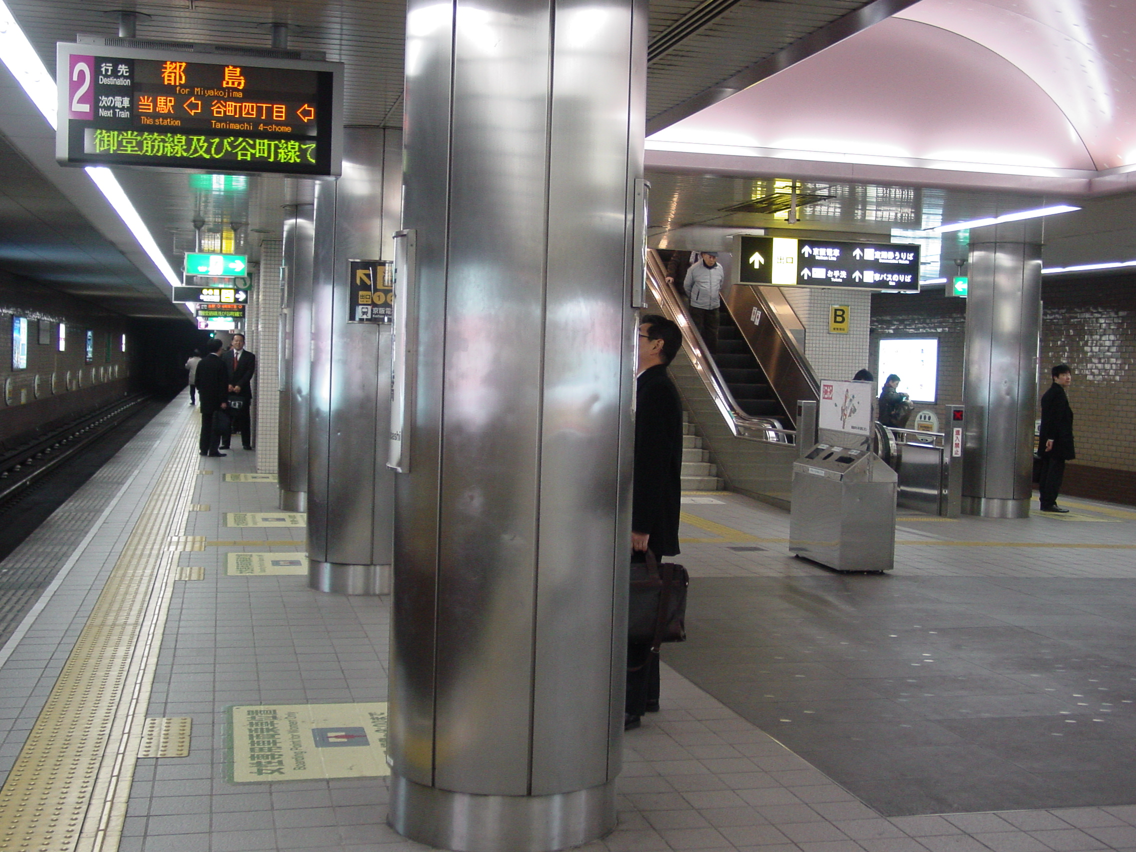 Platform for subway in Temmmabashi Station.